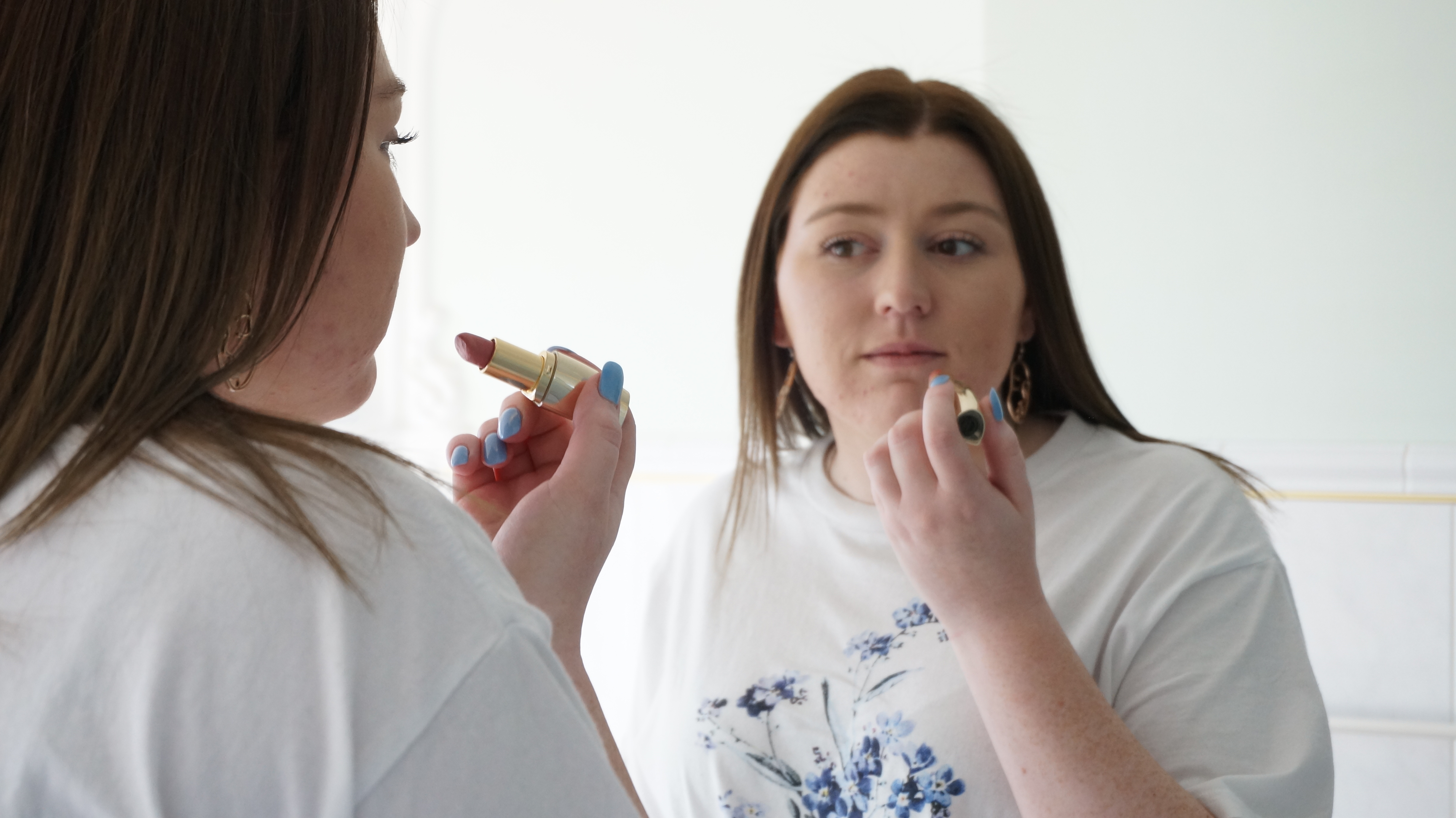 A young woman, puts on lipstick. She carefully looks over her appearance, aiming for perfection.